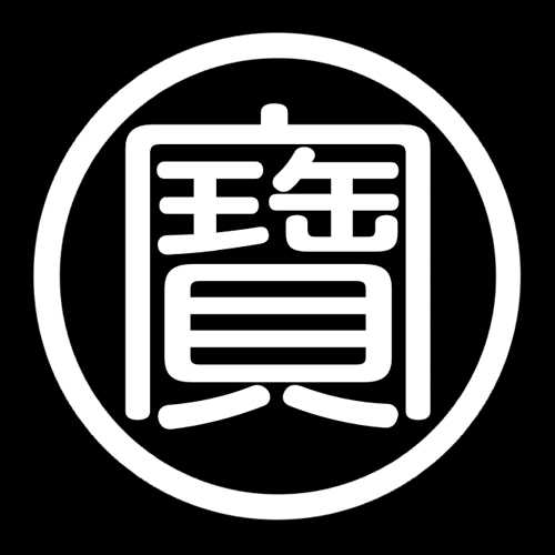 Japanese family crest "Maru ni Takara-no-ji", depicting a kanji "寶" (takara, treasure) in a circle